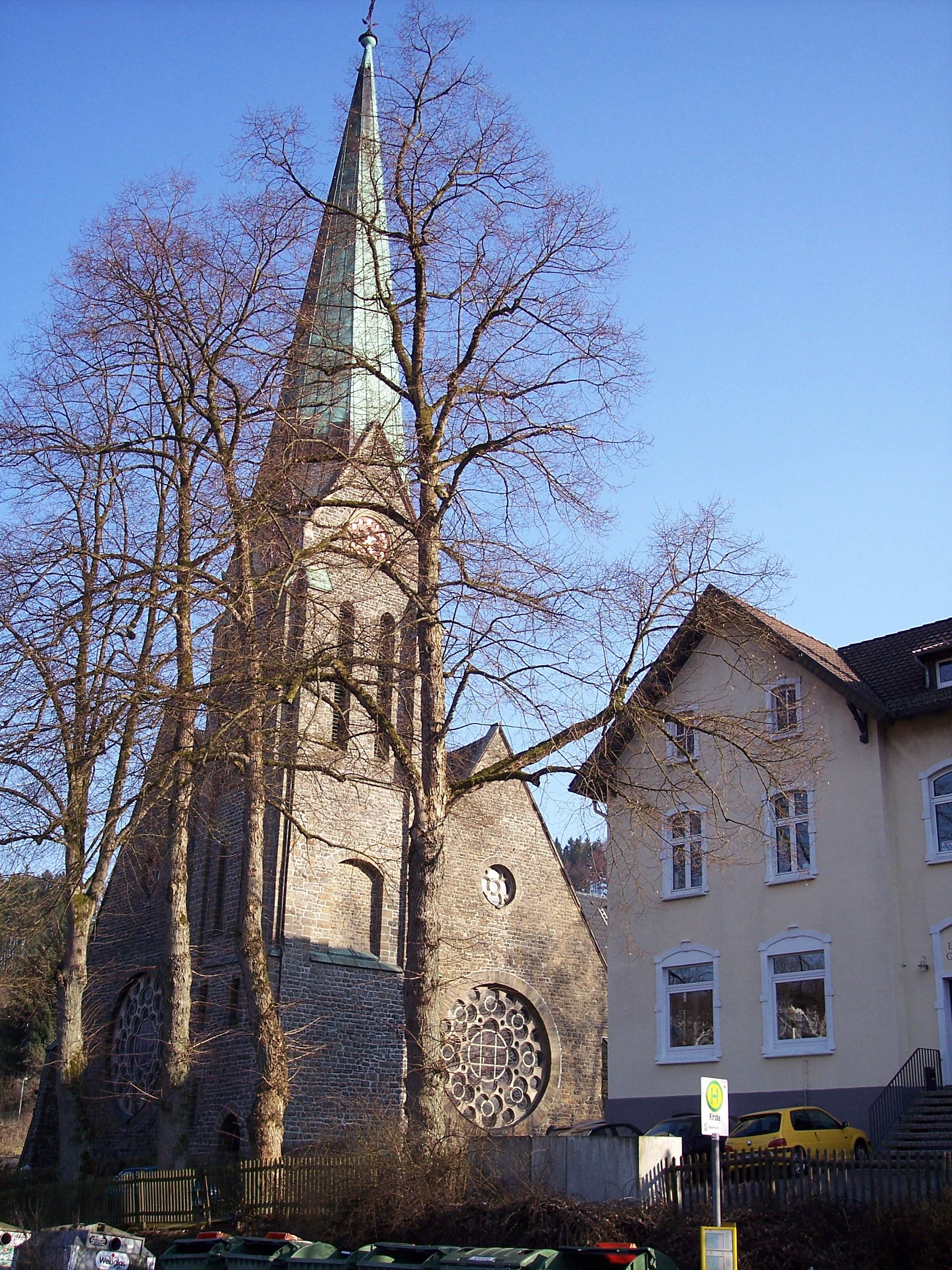 Lüdenscheid-Brügge, protestant Kreuzkirche (Church of the Cross)